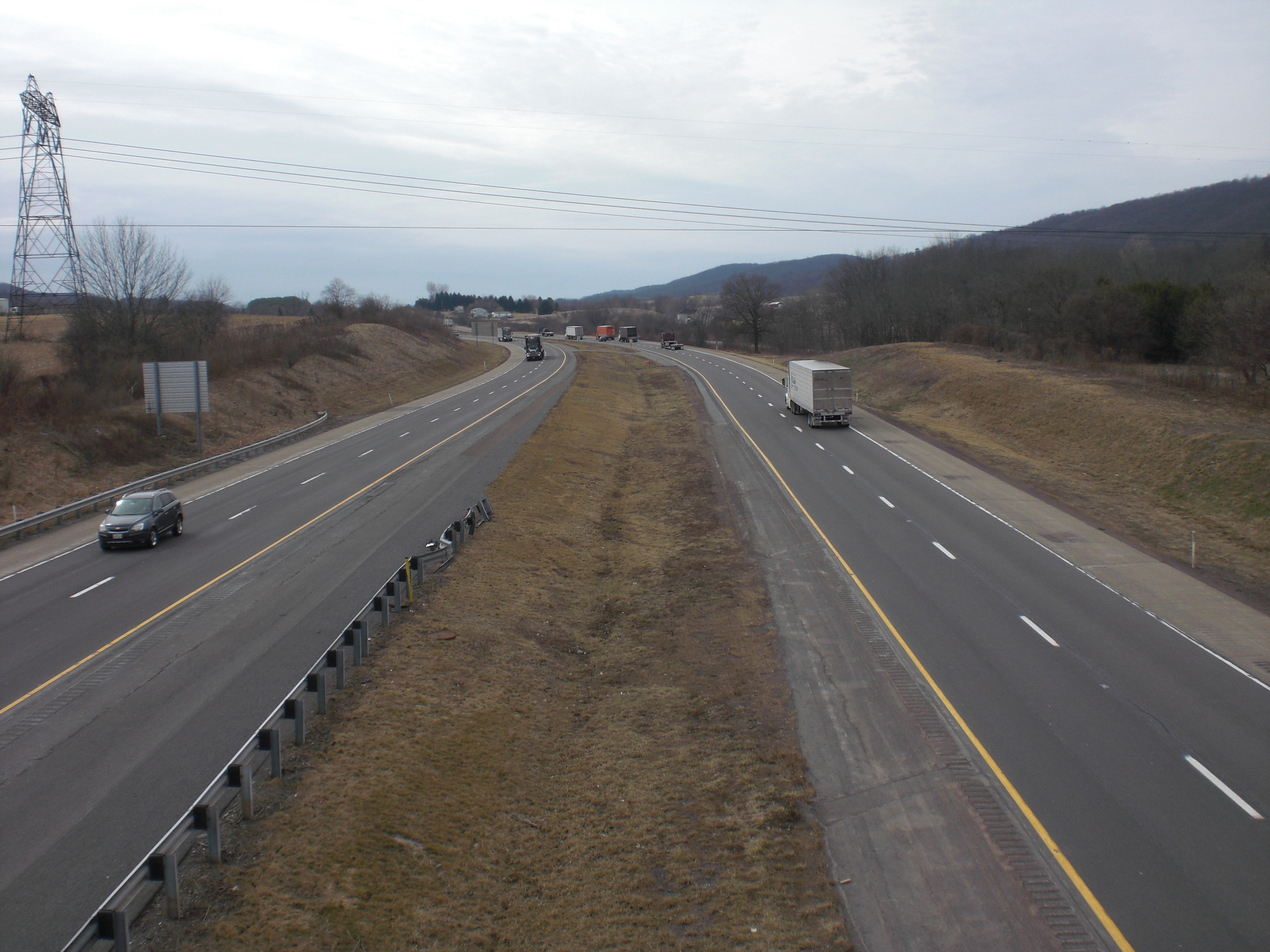 Interstate 80 from an overpass in Hemlock Township